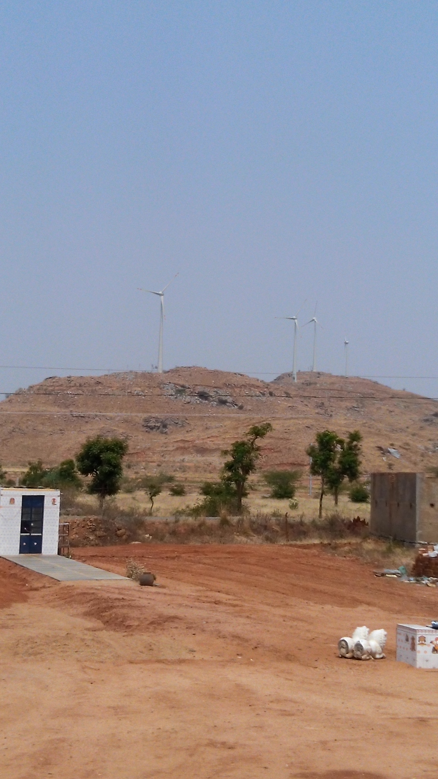 Windmills near Penugonda. These were taken from a public transport bus on the Bangalore-Hyderabad highway.